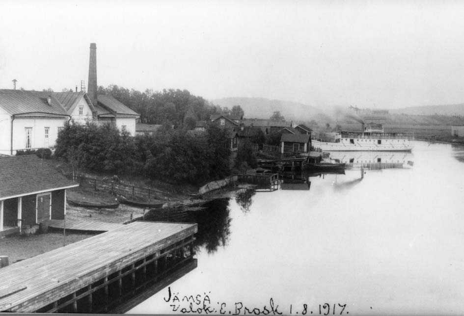 Jämsä dairy by river Jämsänjoki in Finland in 1914